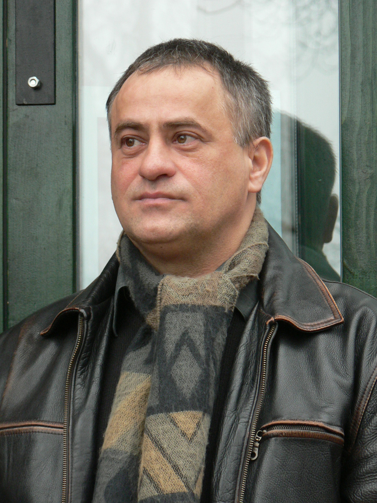 Kovács Jenő szobrászművész (2009)